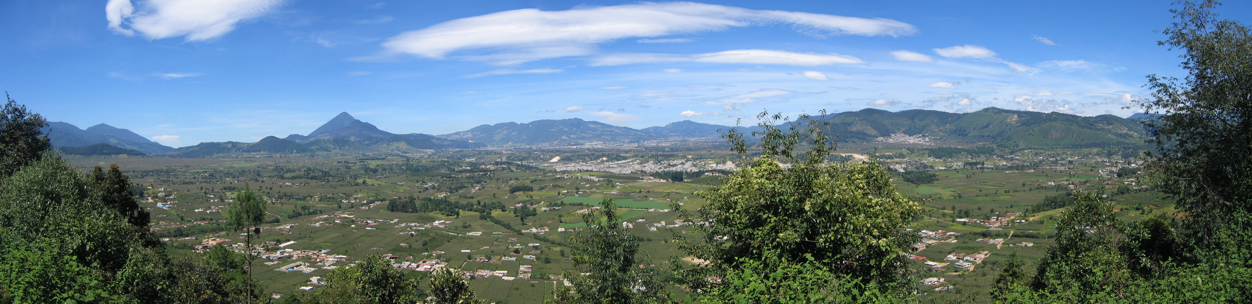 Highlands in Guatamela, August 2006. View towards the Salcajá and Quetzaltenango valleys. The Santa María, Cerro Quemado and Siete Orejas volcanoes are all visible on the horizon.